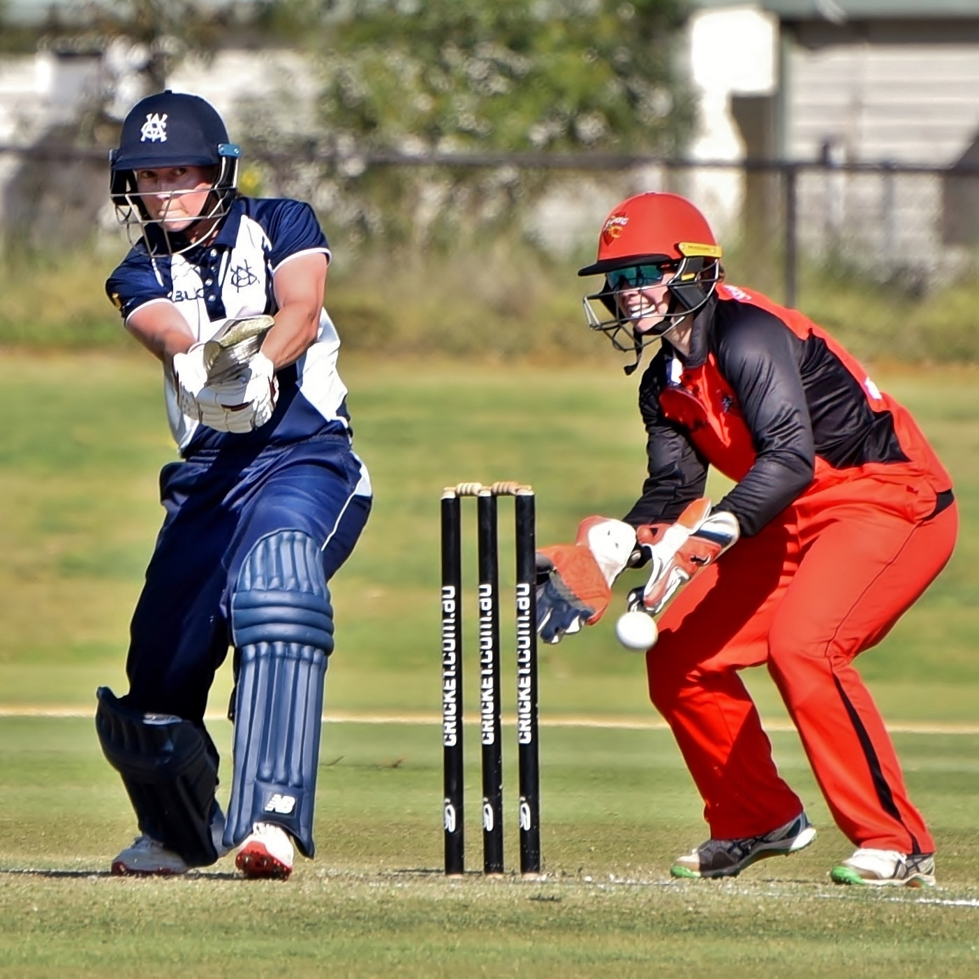 Meg Lanning on her way to 120* for the Victoria Women cricket team during a WNCL clash against the South Australian Scorpions at Murdoch University Sports Oval in Perth. The wicket-keeper is Tegan McPharlin.